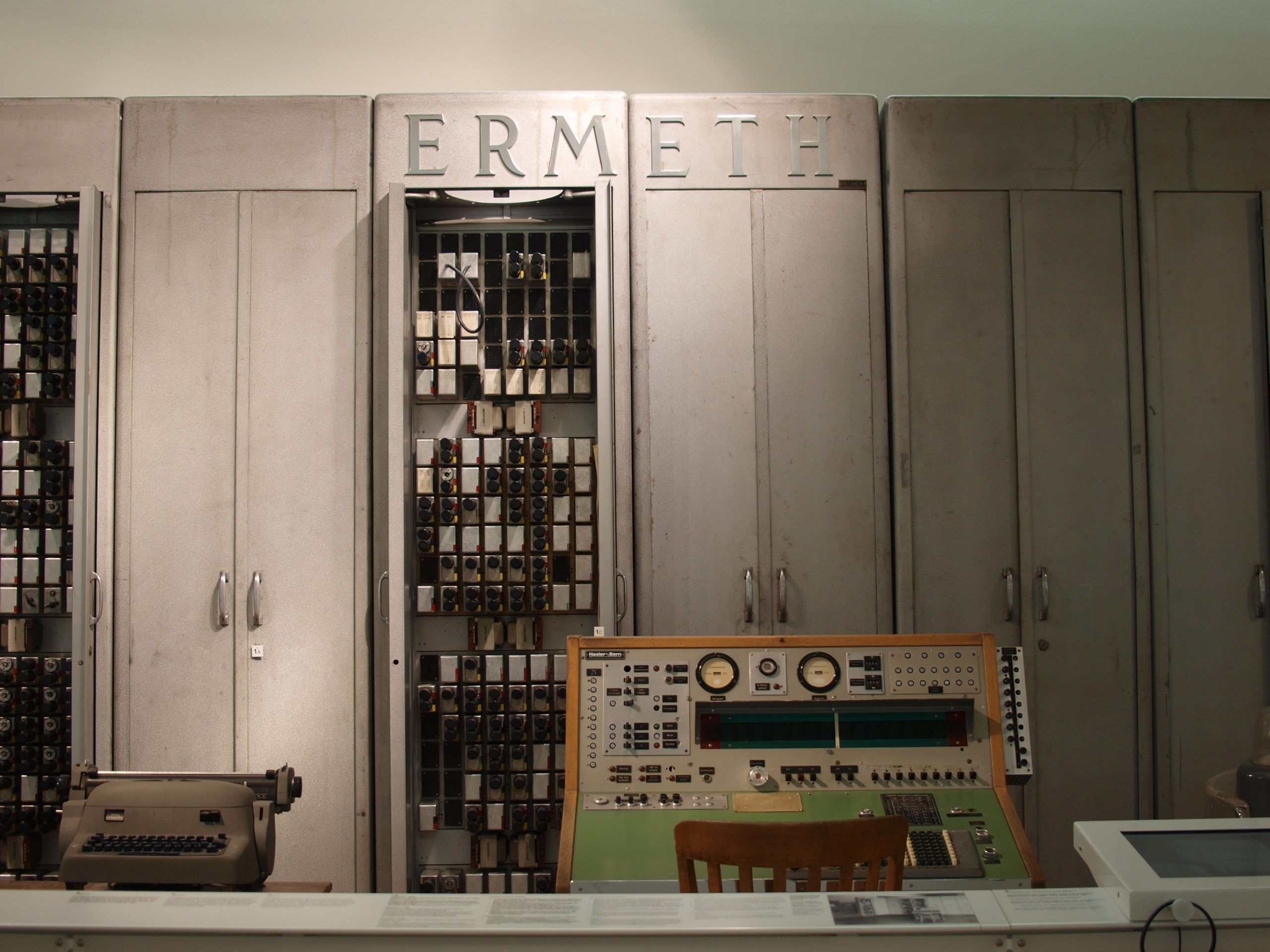 ERMETH was one of first computers in Europe which was inspired by Zuse Z4, developed at ETH Zurich.